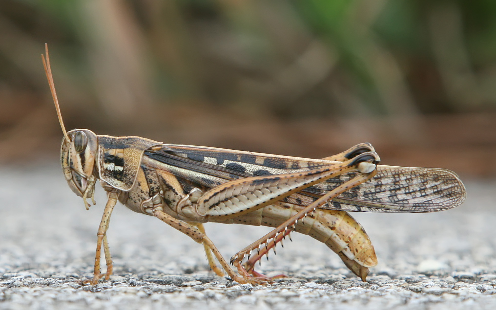 American Bird Grasshopper, also known as the American Grasshopper.